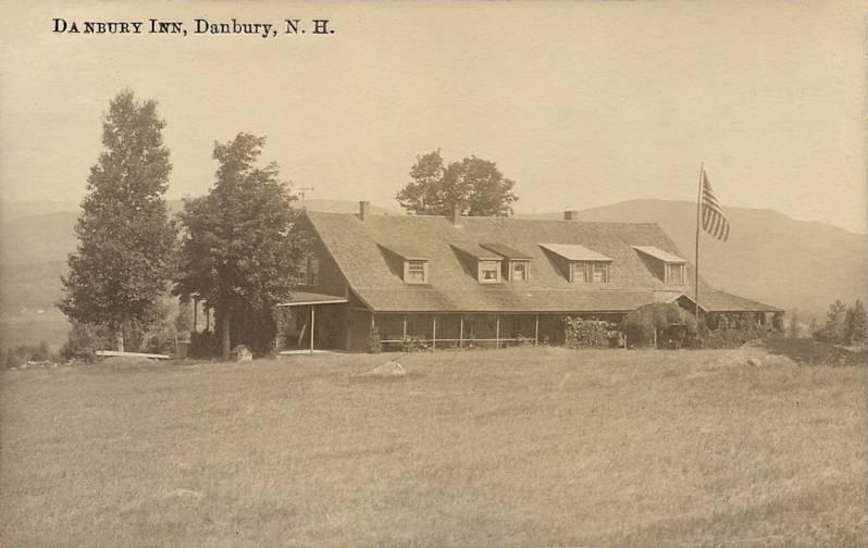 The Danbury Inn, Danbury, New Hampshire